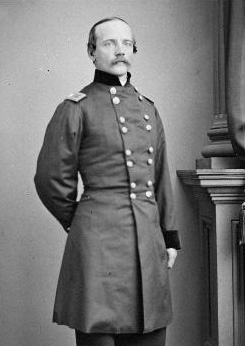 George Leonard Andrews, Union General, from